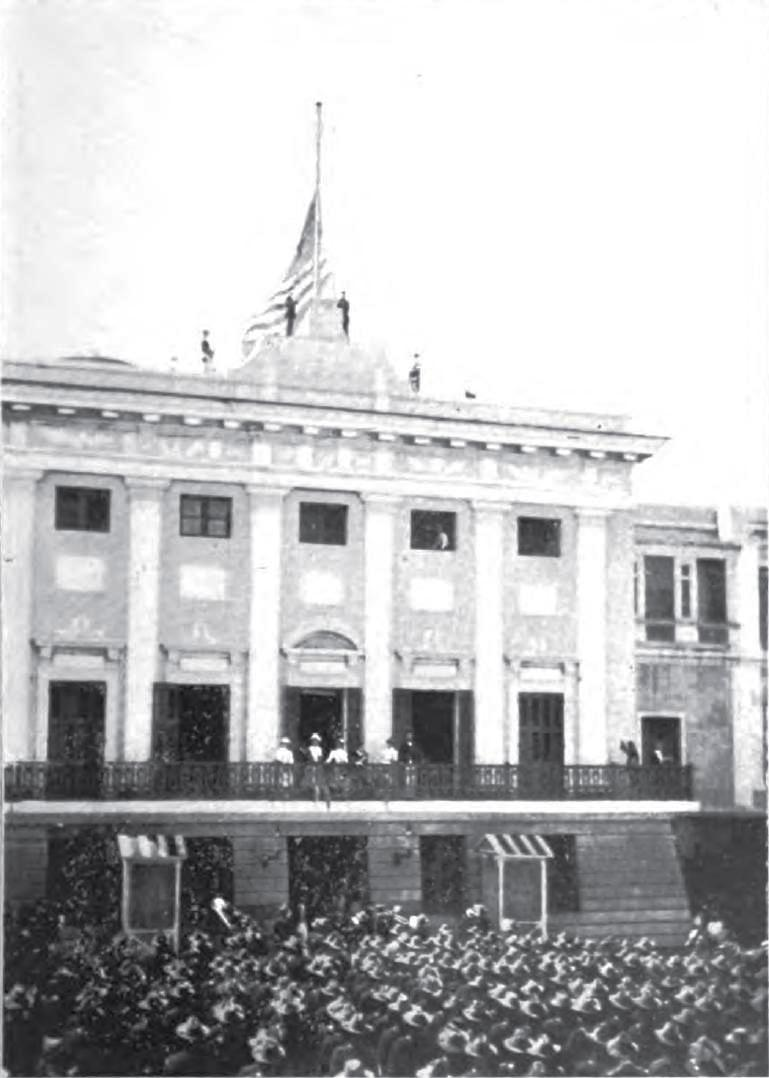 The flag of the United States being raised over San Juan, Puerto Rico, on October 18, 1898.